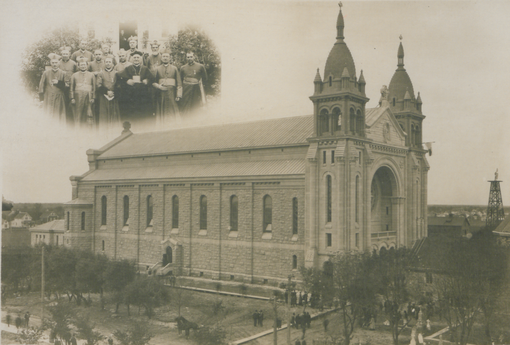 Original caption: “St. Boniface Cathedral, souvenir. October 4, 1908.”